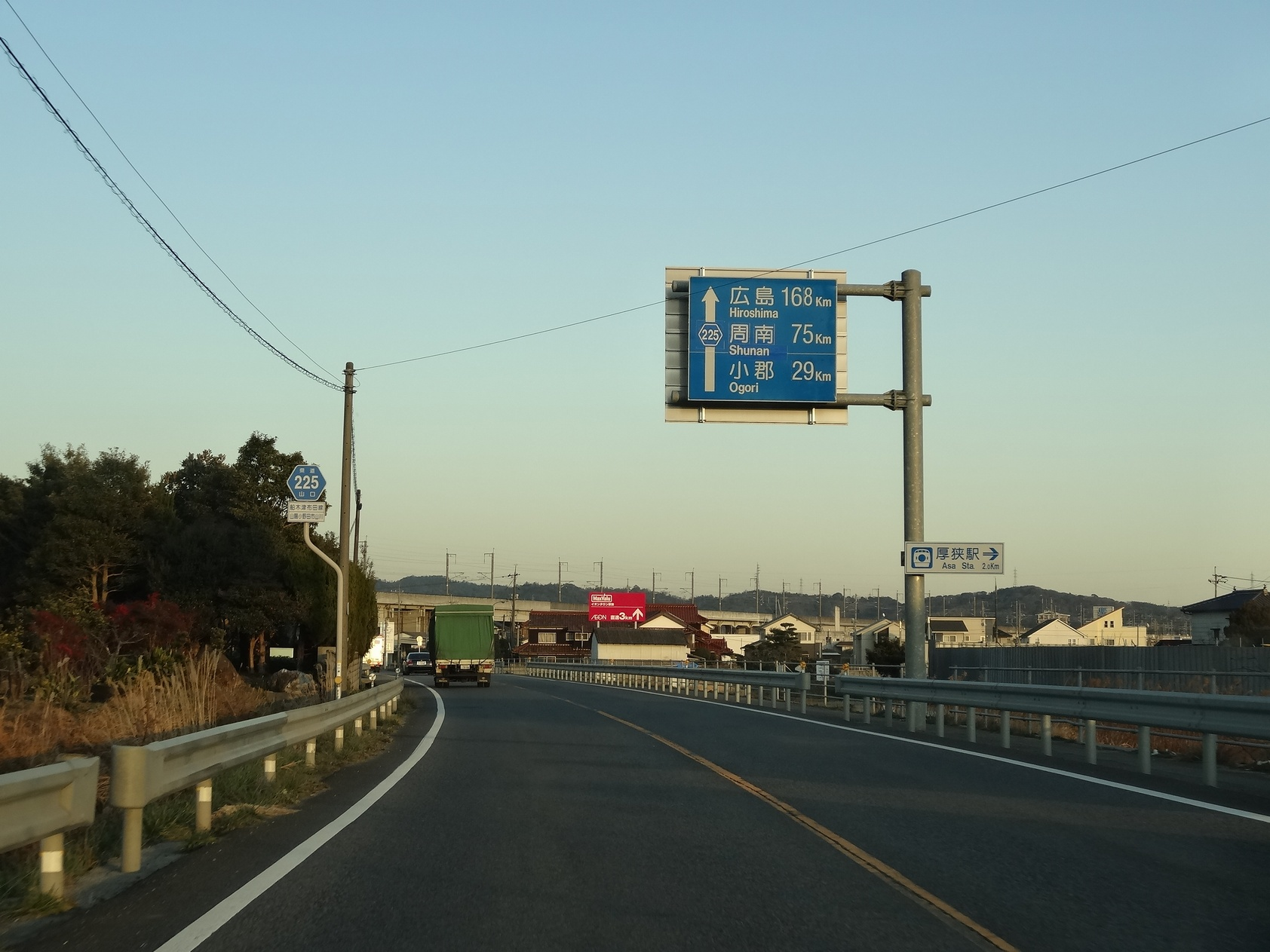 Yamaguchi Prefectural Road No.225 Funaki - Tsubuta Line (Yamakawa, Sanyo-Onoda City, Yamaguchi Japan)